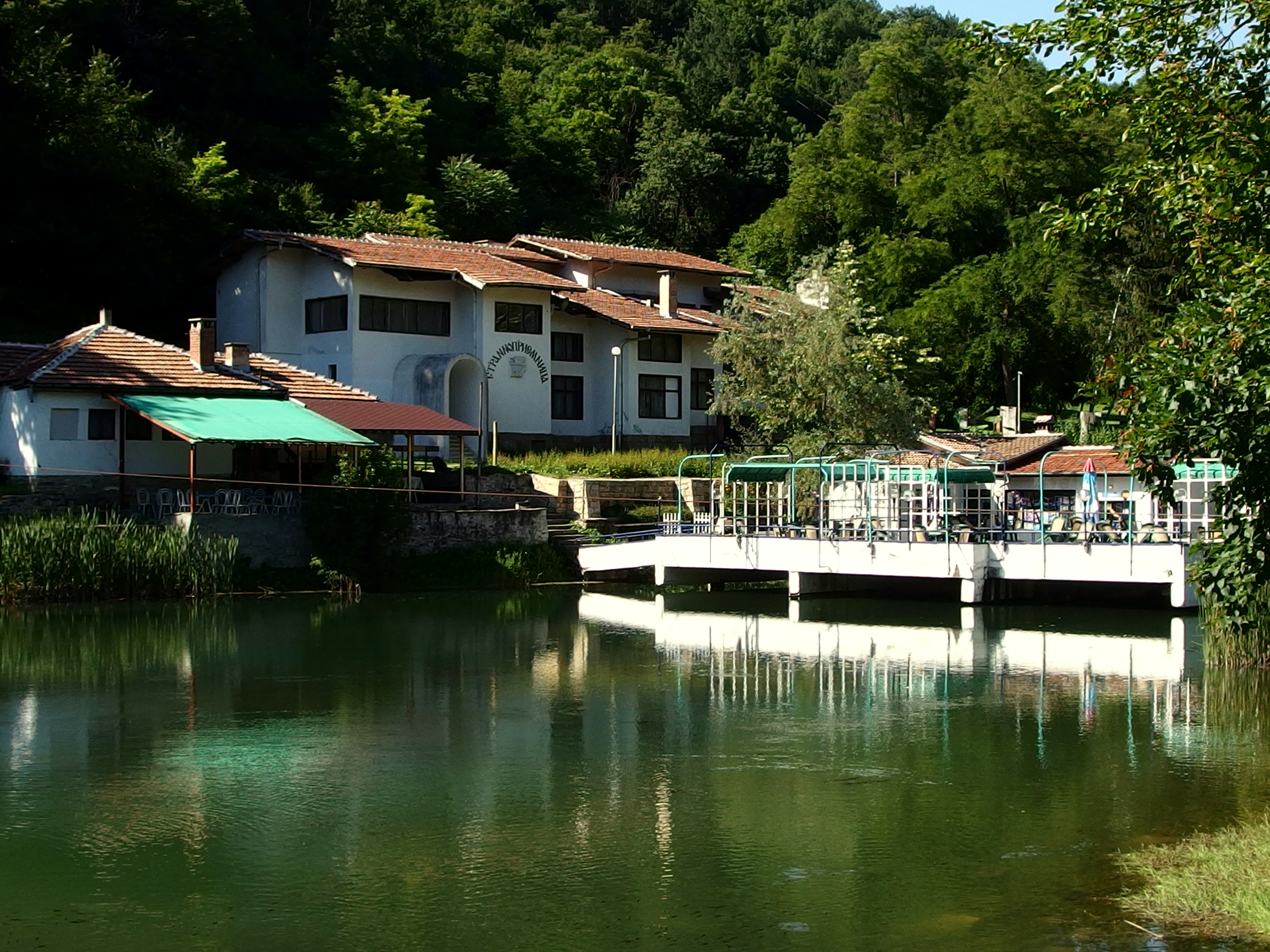 2014-06-23 between Arbanasi and Veliko Tarnovo.